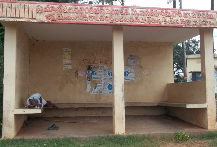 Bus Shelter built by Sri.Meka.Ankineedu in the memory of his wife Smt.Meka.Basava Poornamma in 1986.